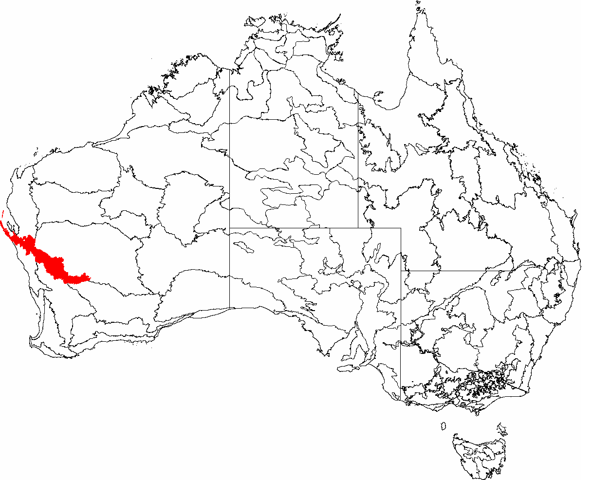 This is a map of the Interim Biogeographic Regionalisation of Australia (IBRA), with state boundaries overlaid. The Yalgoo region is shown in red.